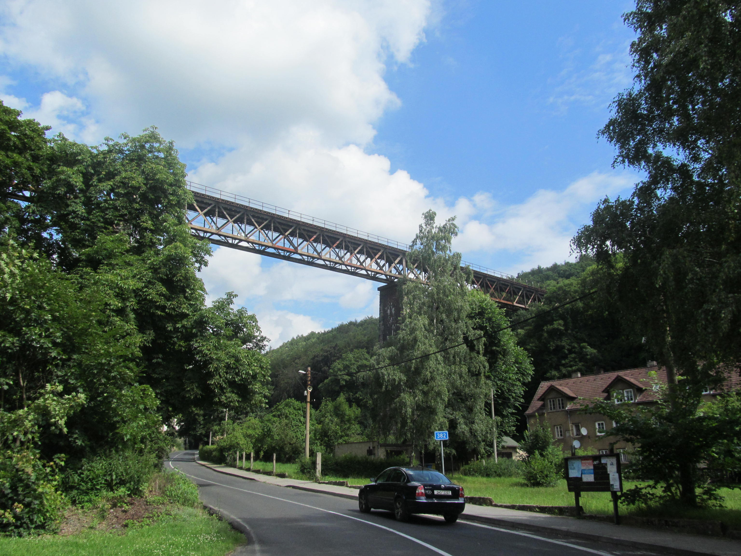 Railroad bridge in Mlýny